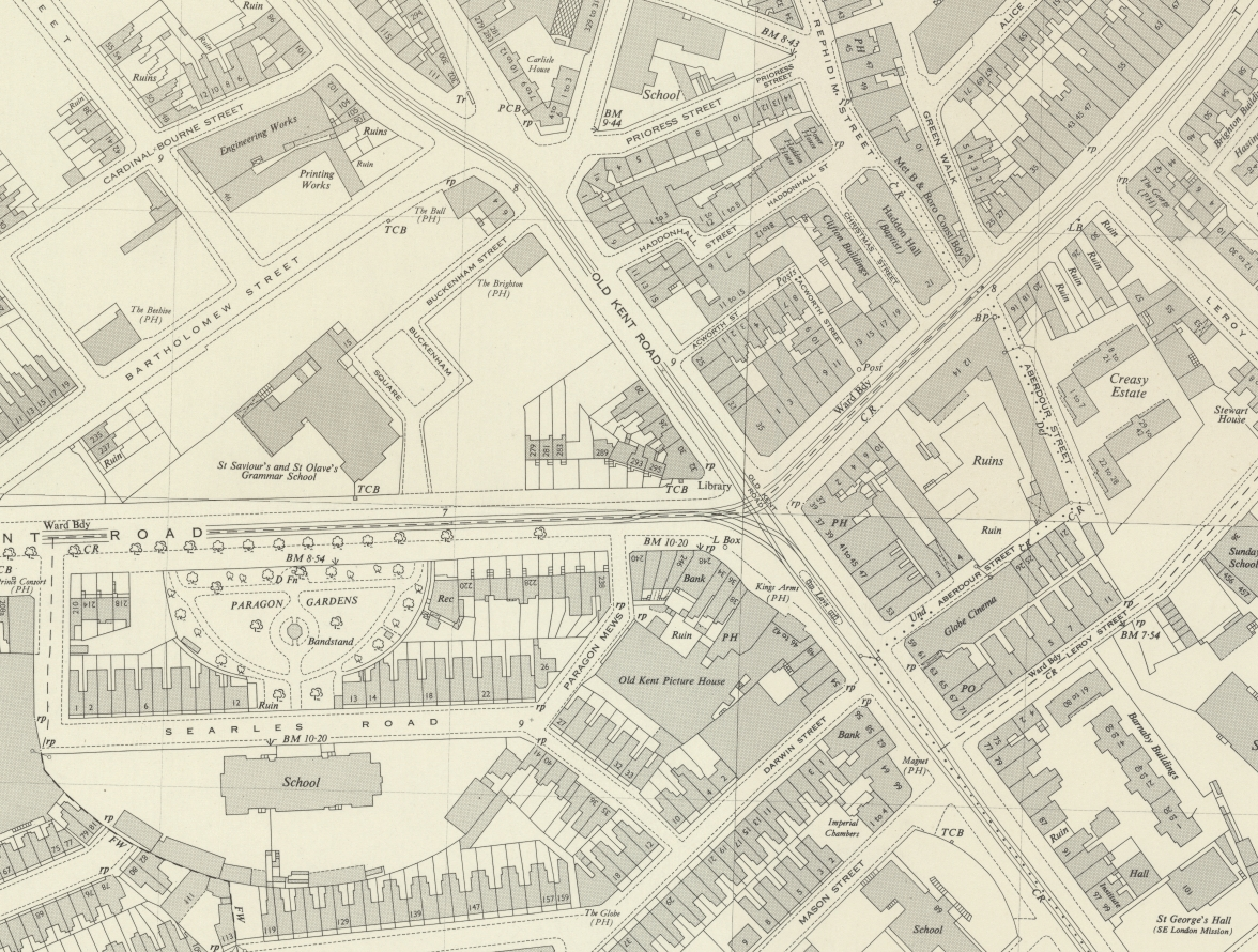 Ordnance Survey map showing site of future Bricklayers Arms roundabout and flyover at the Old Kent Road, New Kent Road and Tower Bridge Road. Original map scale: 1:1,250.